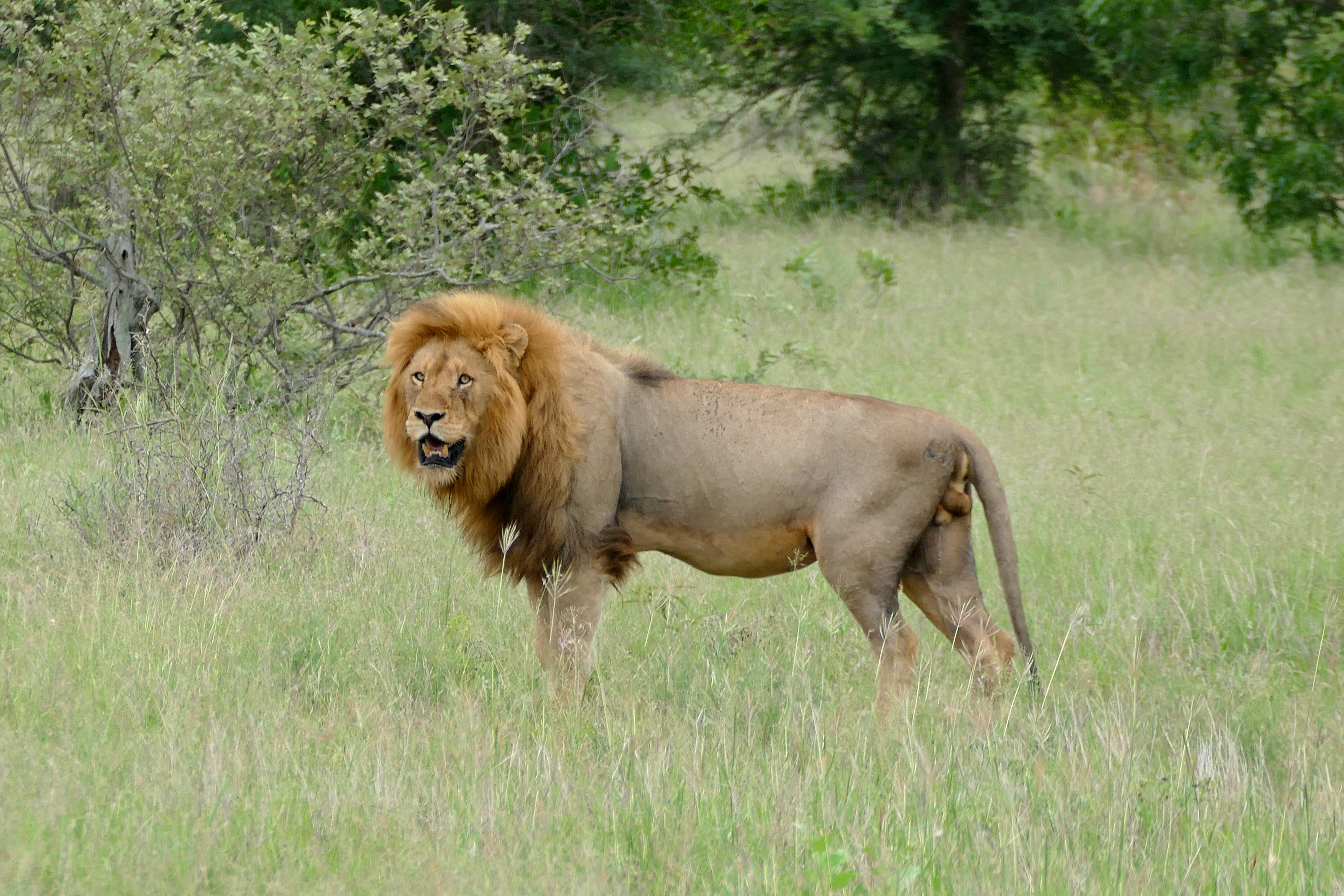 H7 Road East of Orpen, Kruger NP, SOUTH AFRICA